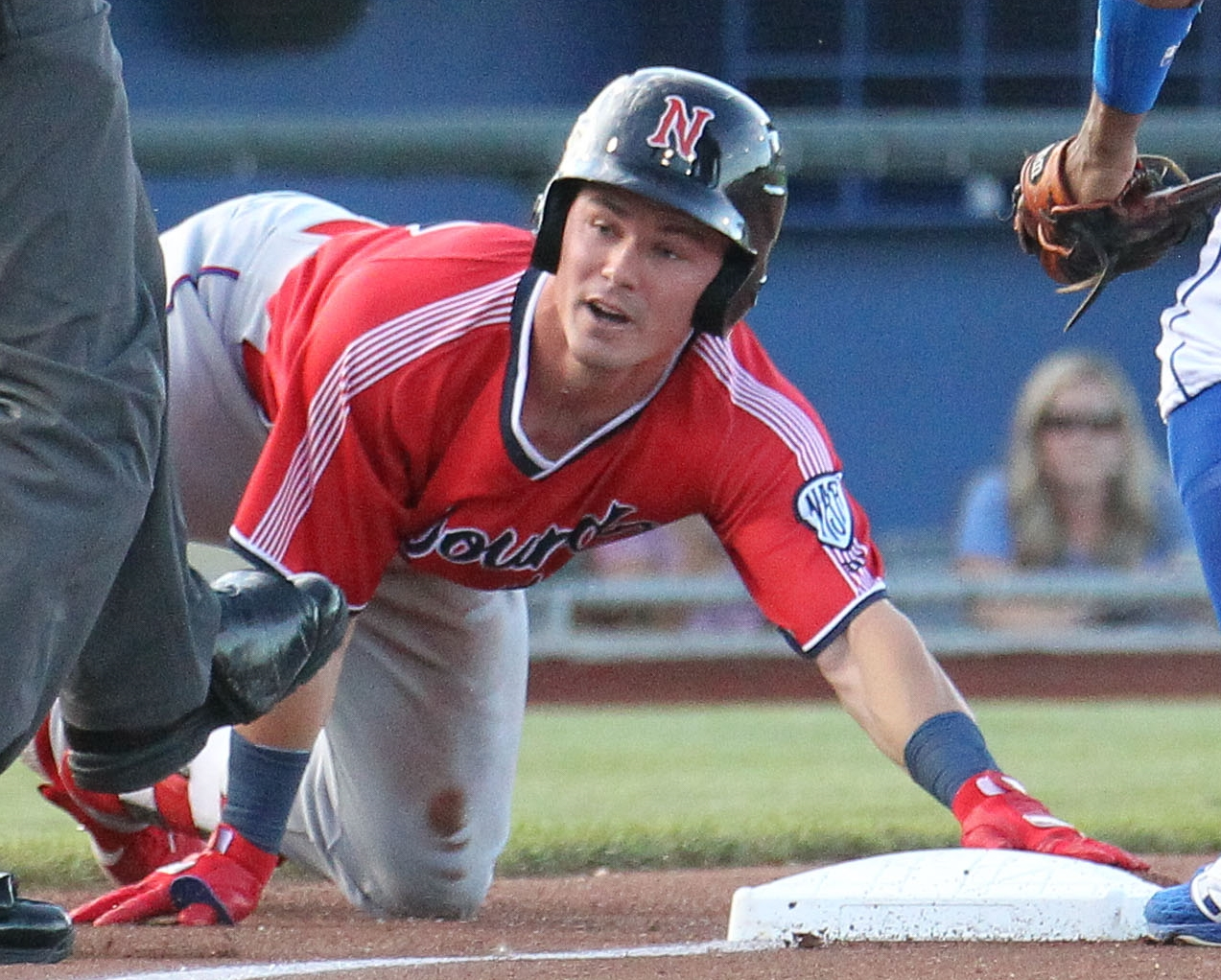 Minda Haas Kuhlmann | 2019 USAGE INSTRUCTIONS: You are welcome to share or publish to your own site or social media account, but you MUST credit me, Minda Haas Kuhlmann. Twitter: @minda33. Instagram: minda.haas